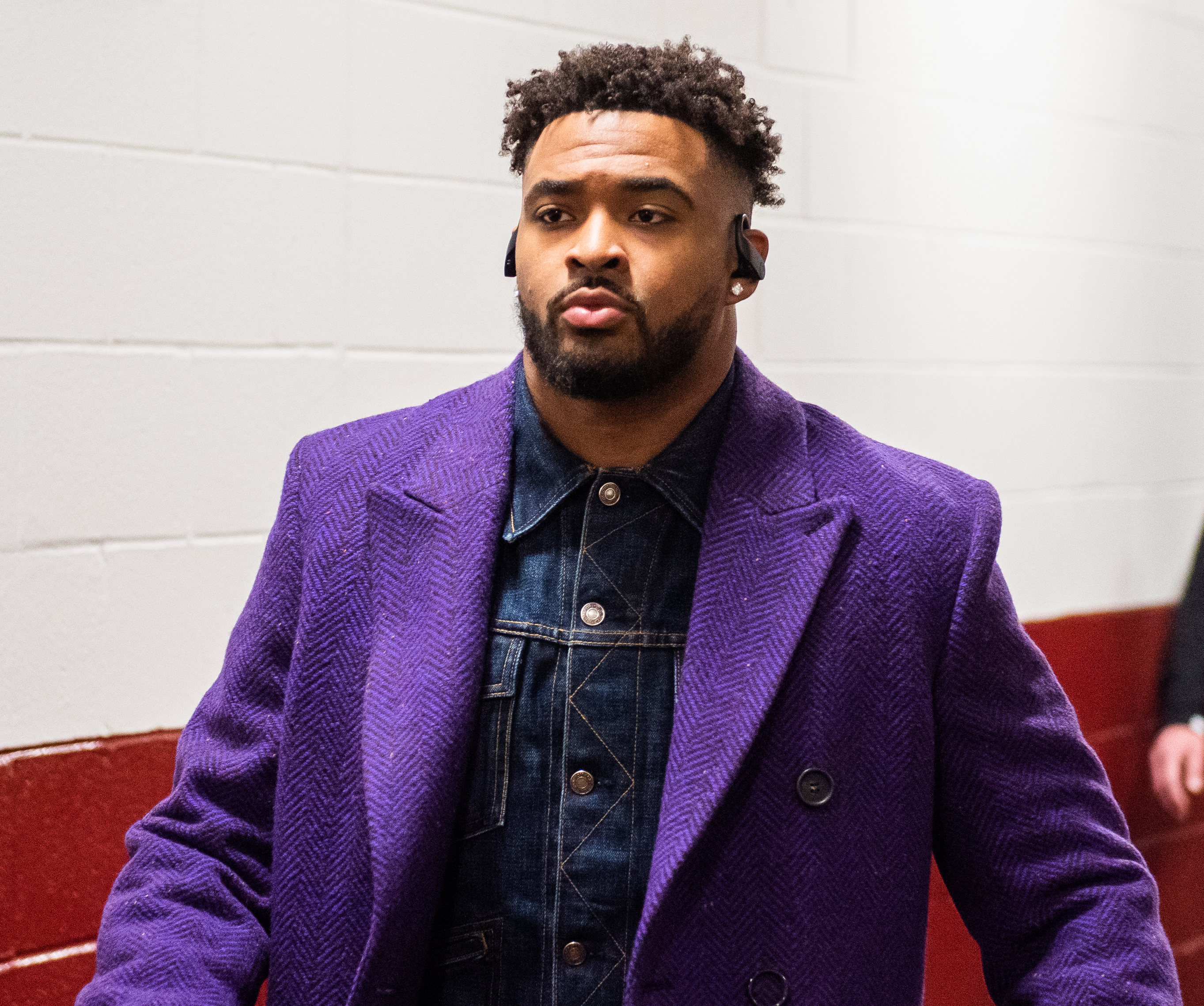 In 2019